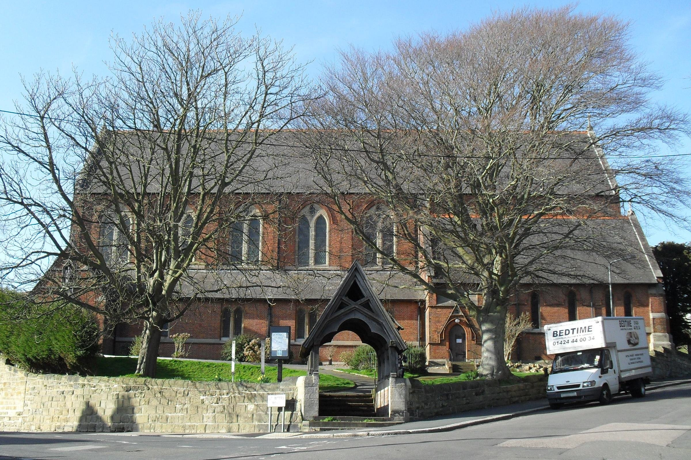 St Peter's Church, St Peter's Road, Bohemia, Hastings, East Sussex, England. Designed by James Brooks and completed by building firm John Howell & Son of Hastings in 1885. Listed at Grade II* by English Heritage (NHLE Code 1353235)